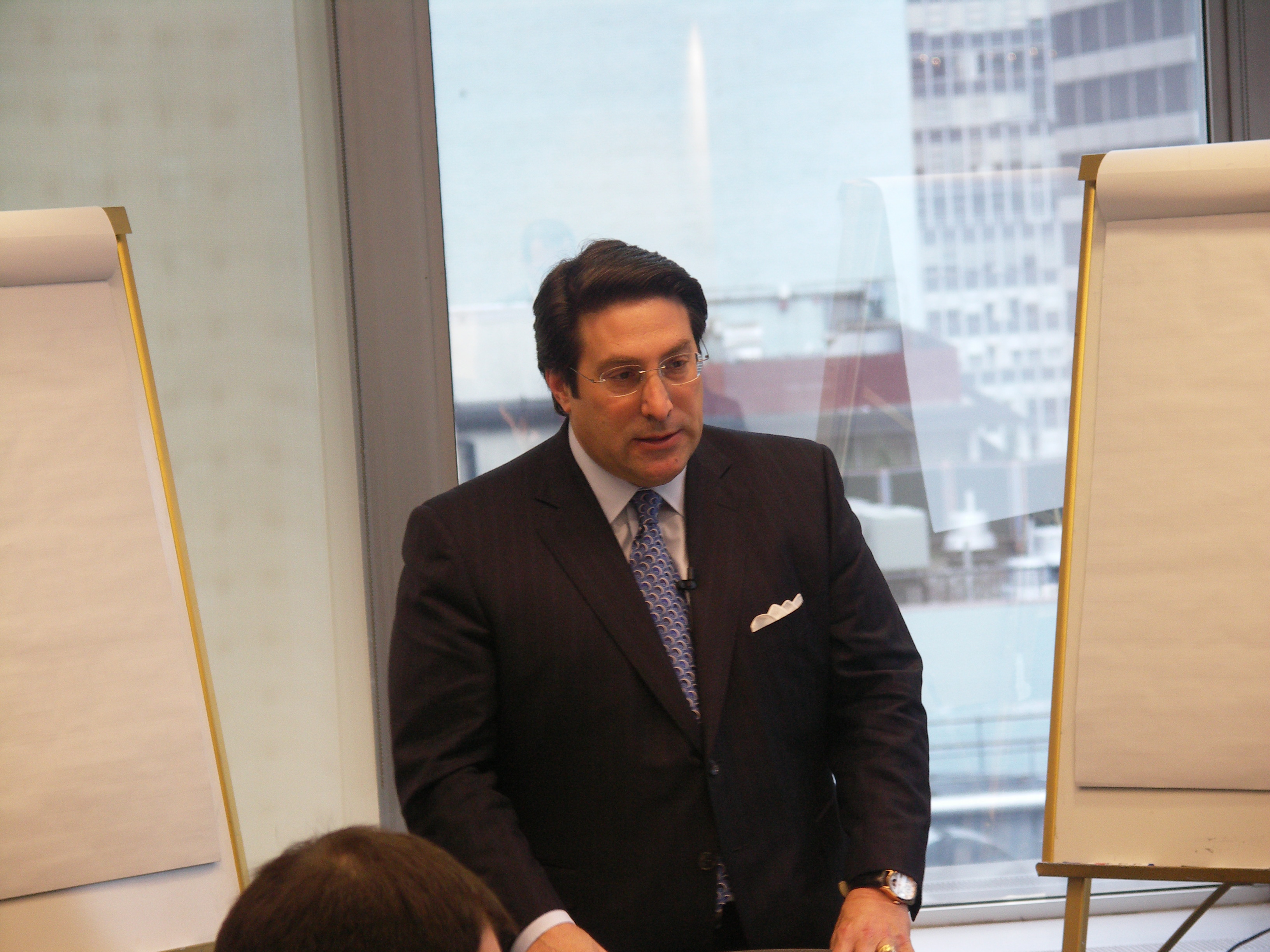 Jay Sekulow lecturing